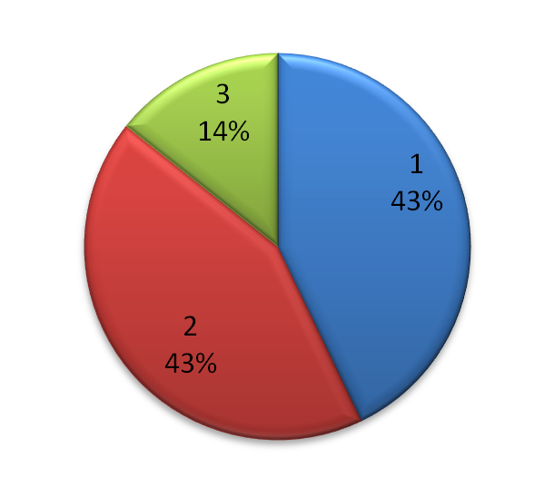 The frequency of the Fridays the 13th during the 28 years period